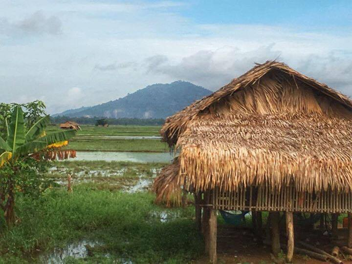 Village home with view of Kaylartha Mountain. Photo by Brittney Tun